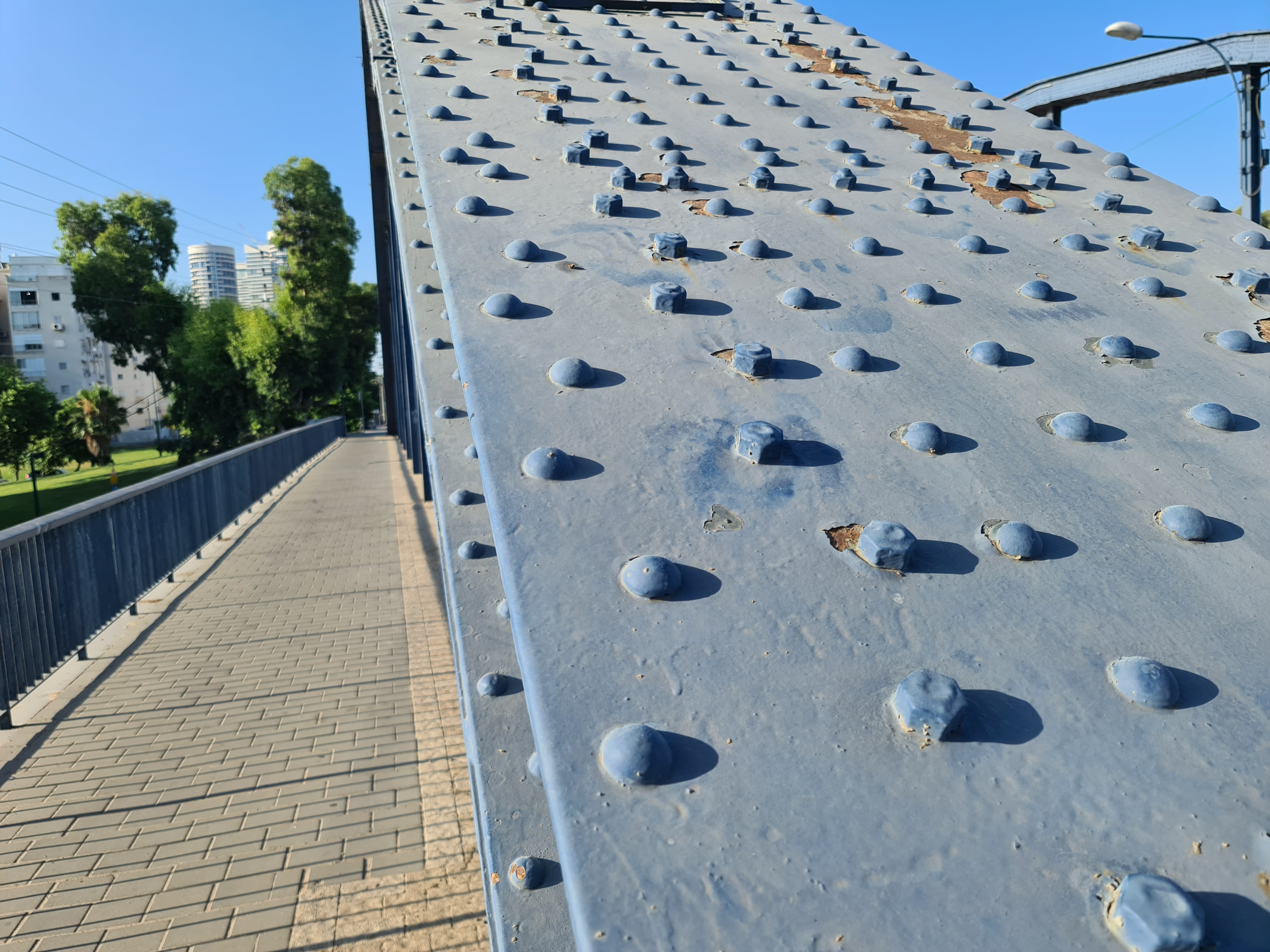 Rivets and screws on the bridge arc